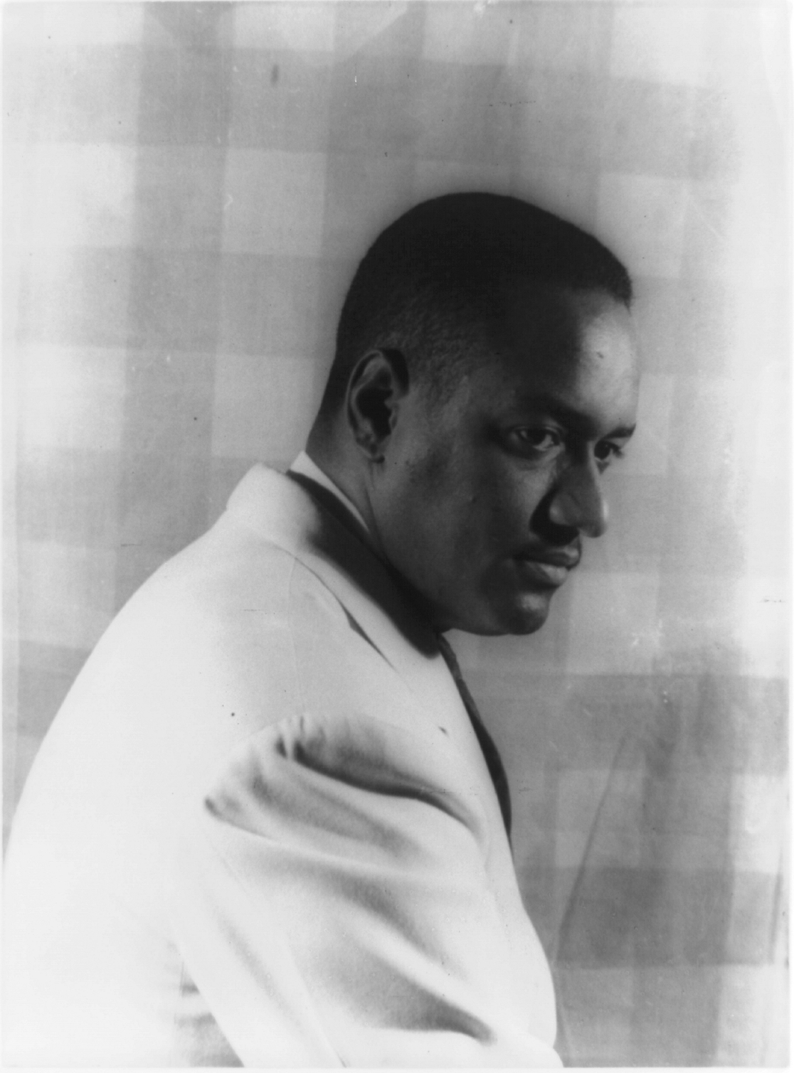 Photo of conductor Dean Dixon.Portrait of Dean Dixon, 1941